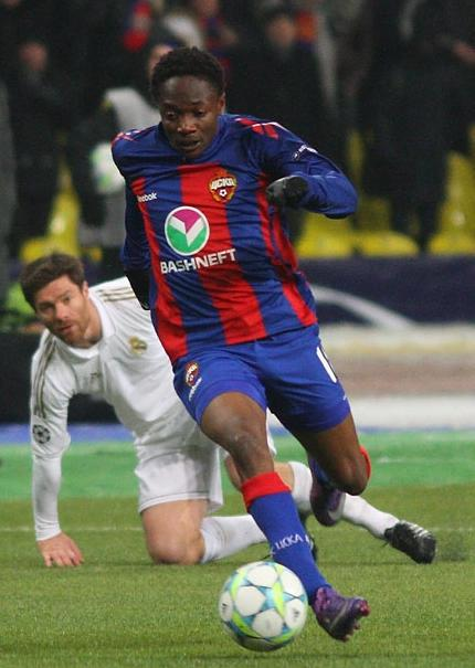 Ahmed Musa playing for CSKA Moscow in a game against Real Madrid in a UEFA Champions League in Moscow Russia on 21 February 2012.